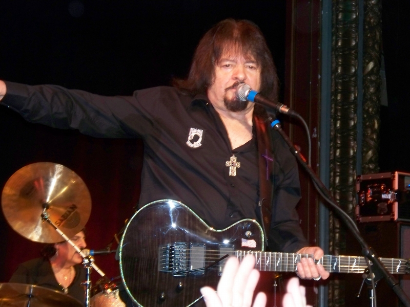 Vince Martell, guitarist for The Vanilla Fudge-1960s Psychedelic Band The Vanilla Fudge, known for their 1967 hit"You Keep Me Hanging On": Mark Stein-keyboards, vocals; Vince Martell-guitar, vocals; Carmine Appice-drums; Pete Bremy-replacing original bassist Tim Bogert who is temporarily not touring with them. Performed at the Regent Theater in Arlington, Massachusetts on March 26, 2011.